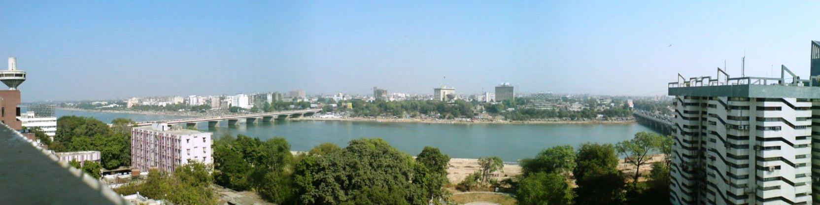 Ahmedabad Panoramic View